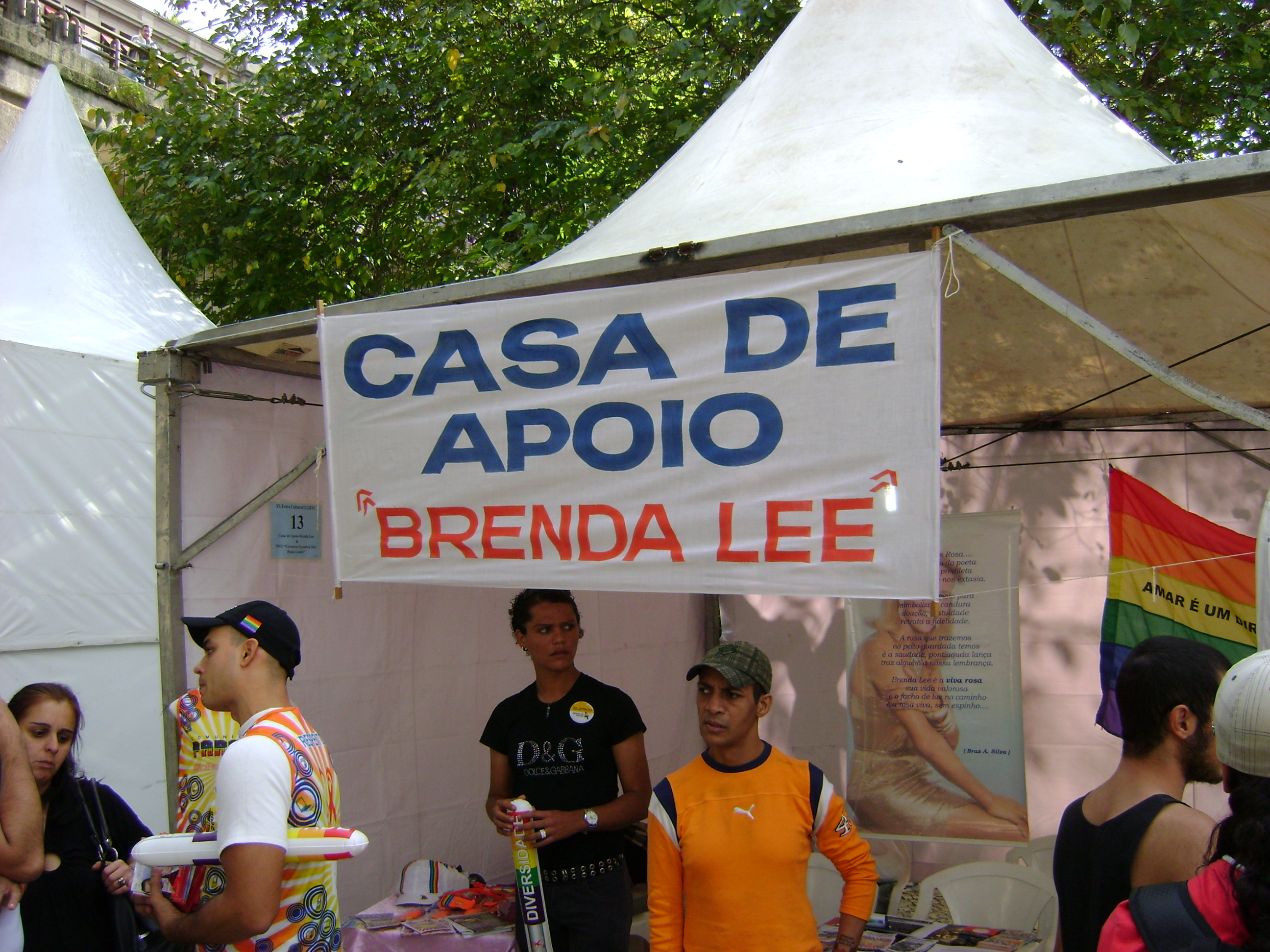 LGBT Cultural Fair in São Paulo, 2009